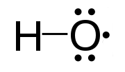 The hydroxyl radical Lewis structure